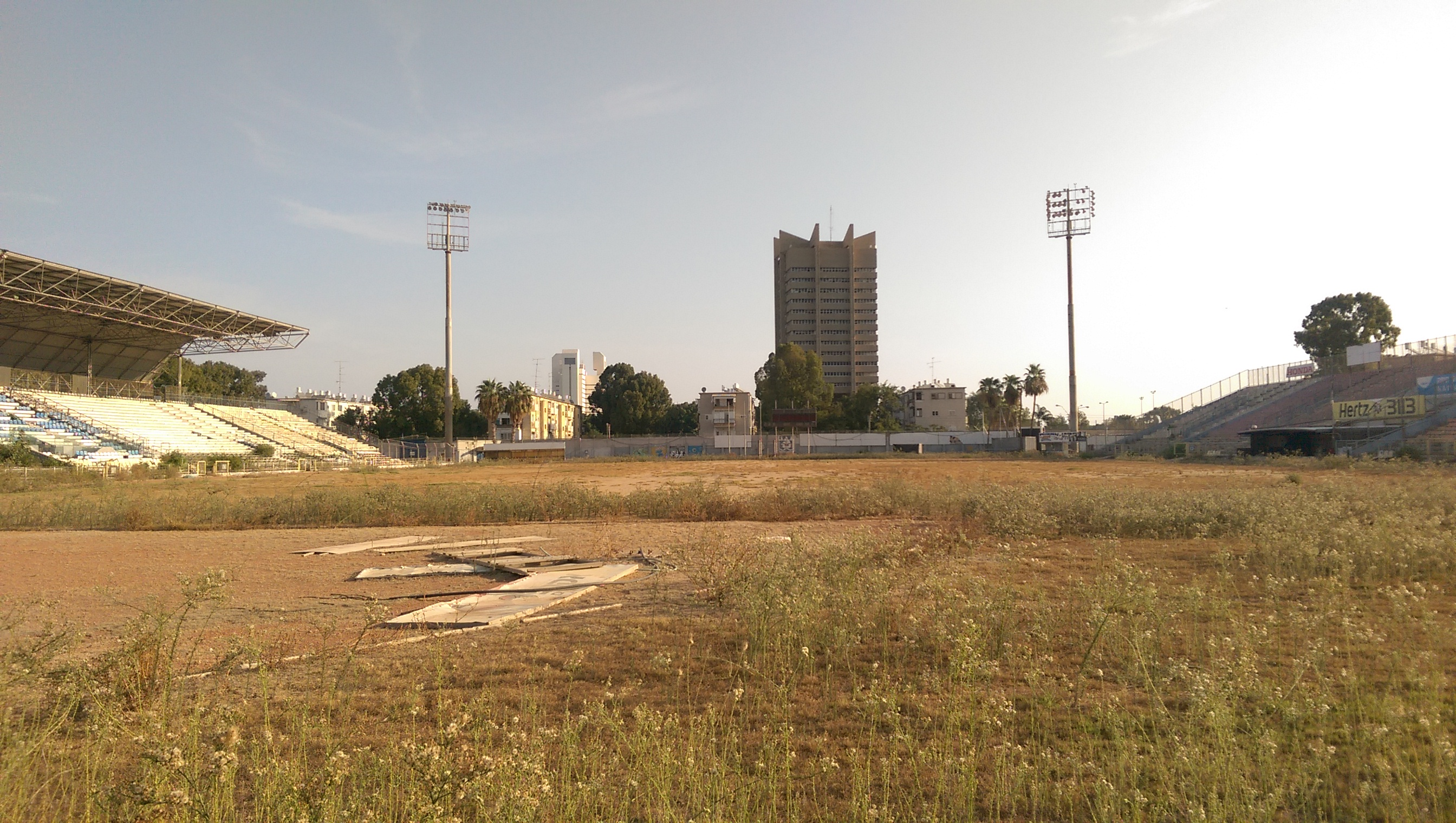 Kiryat Eliezer stadium, October 2015